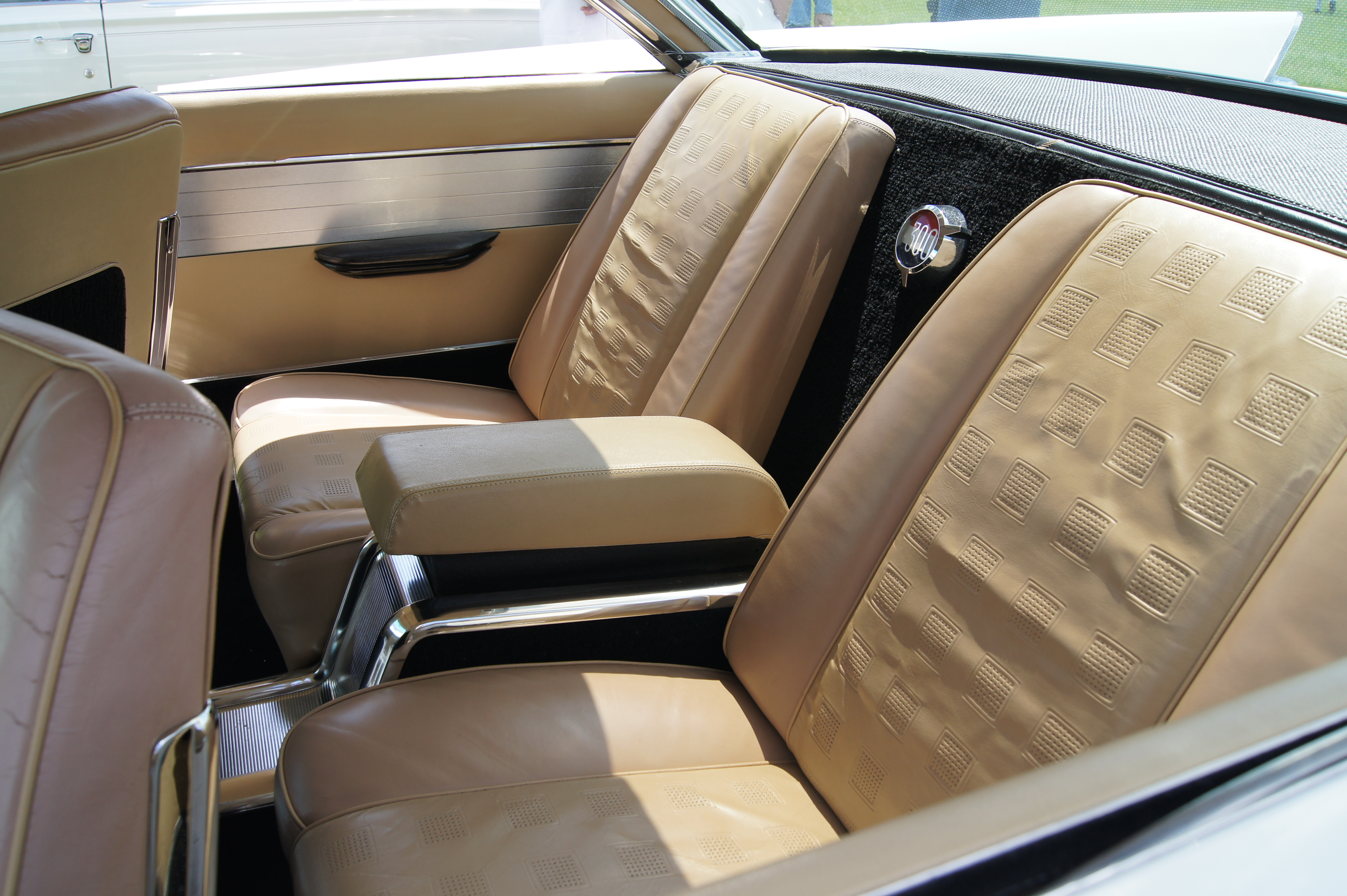 28th Annual Midwest Mopars in the Park June 2, 2012